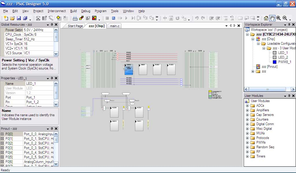 screenshoot cypress psocdesigner in chip mode